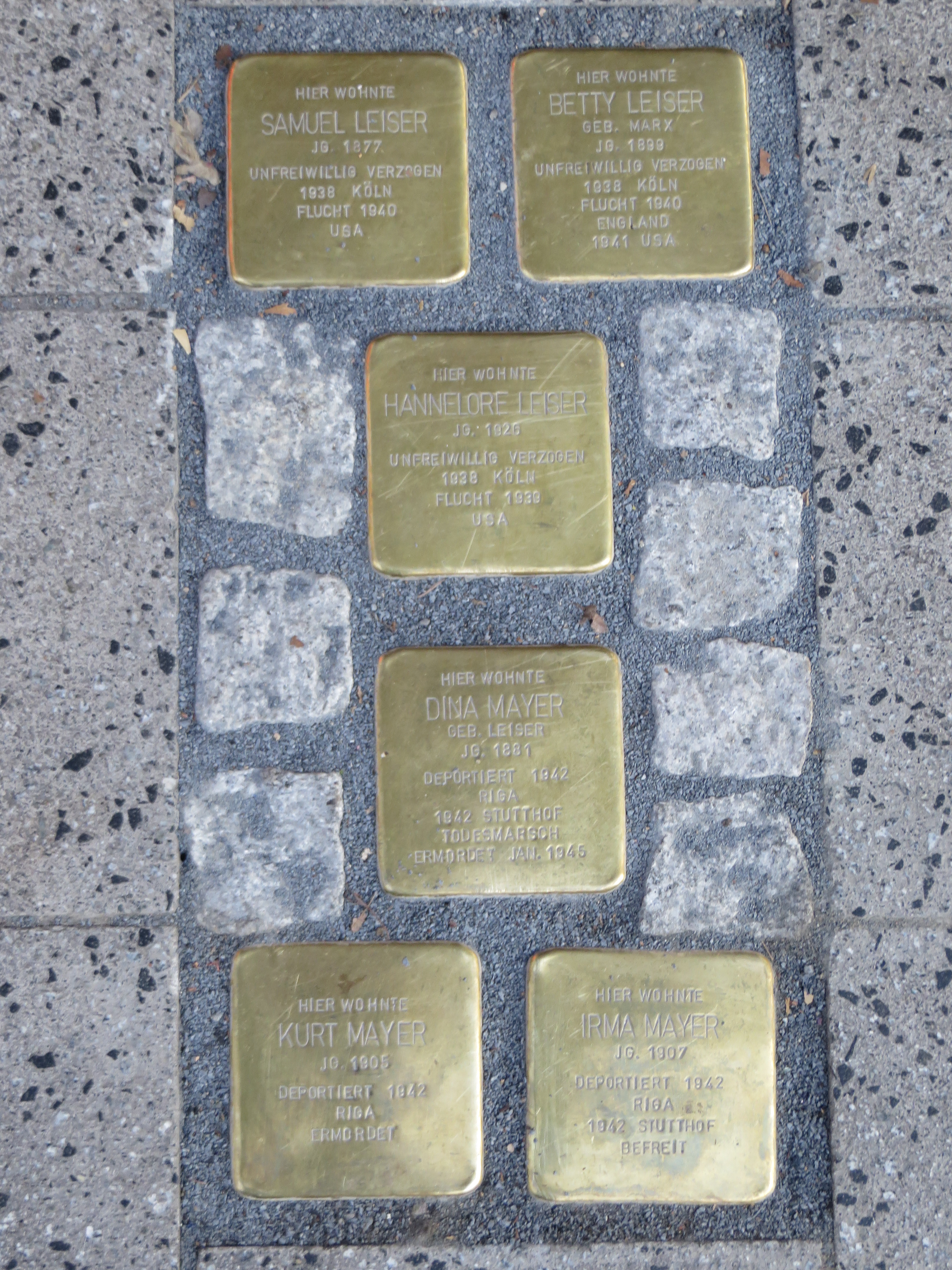 Stolpersteine at house Ruhrstraße 19 in Witten, Germany